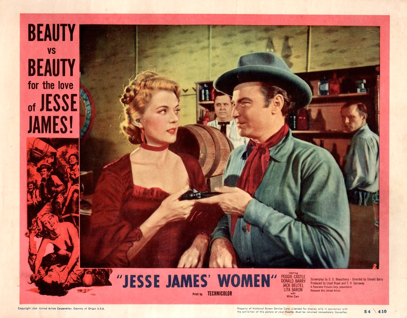 Peggie Castle & Donald Barry (aka Don "Red" Barry) in Jesse James' Women (1954) - promotional poster.